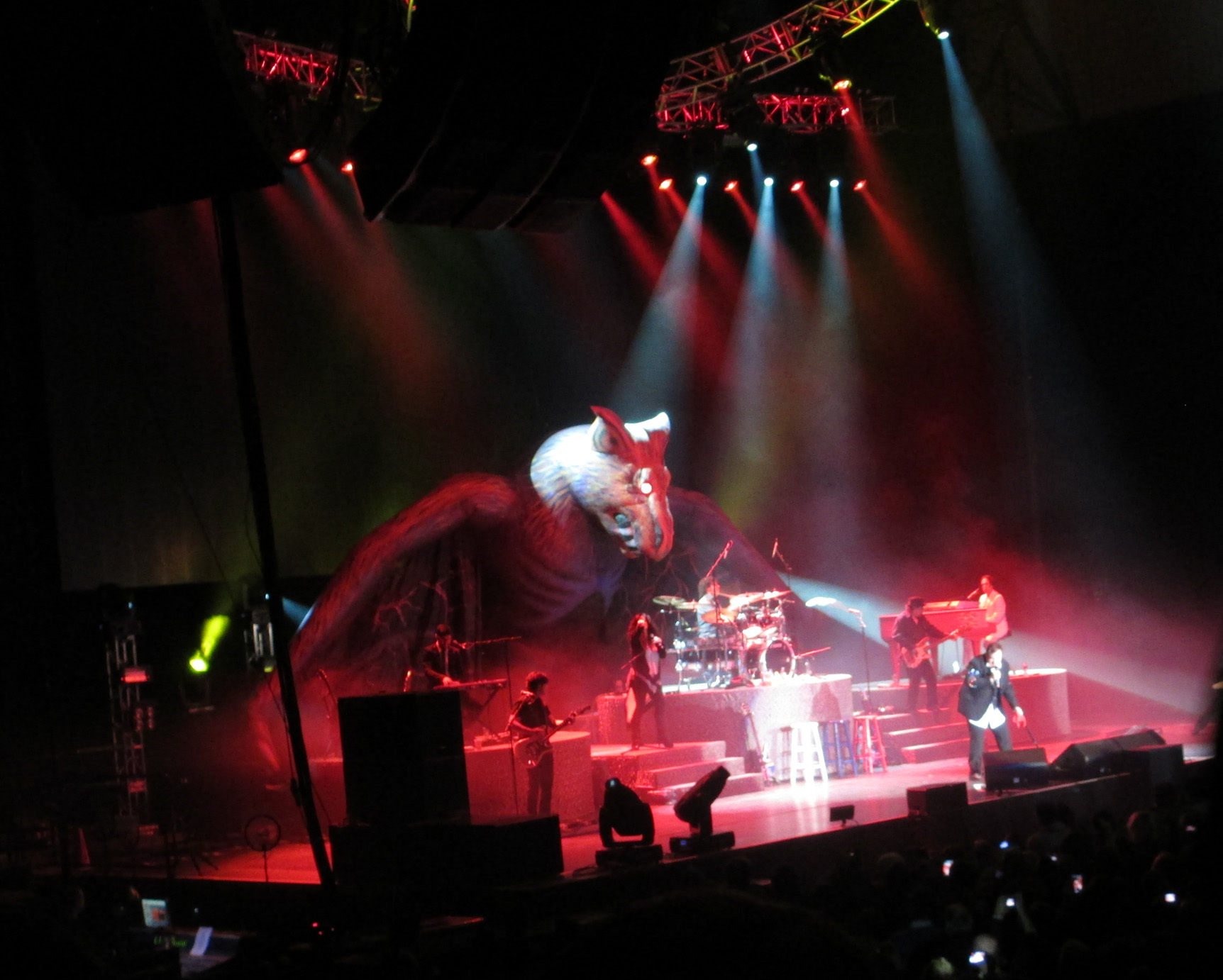 Meat Loaf and band performing during the opening night of the Last at Bat Tour in Newcastle upon Tyne's Metro Radio Arena on 5 April 2013. An inflatable bat is on stage during the rendition of "Bat Out of Hell".